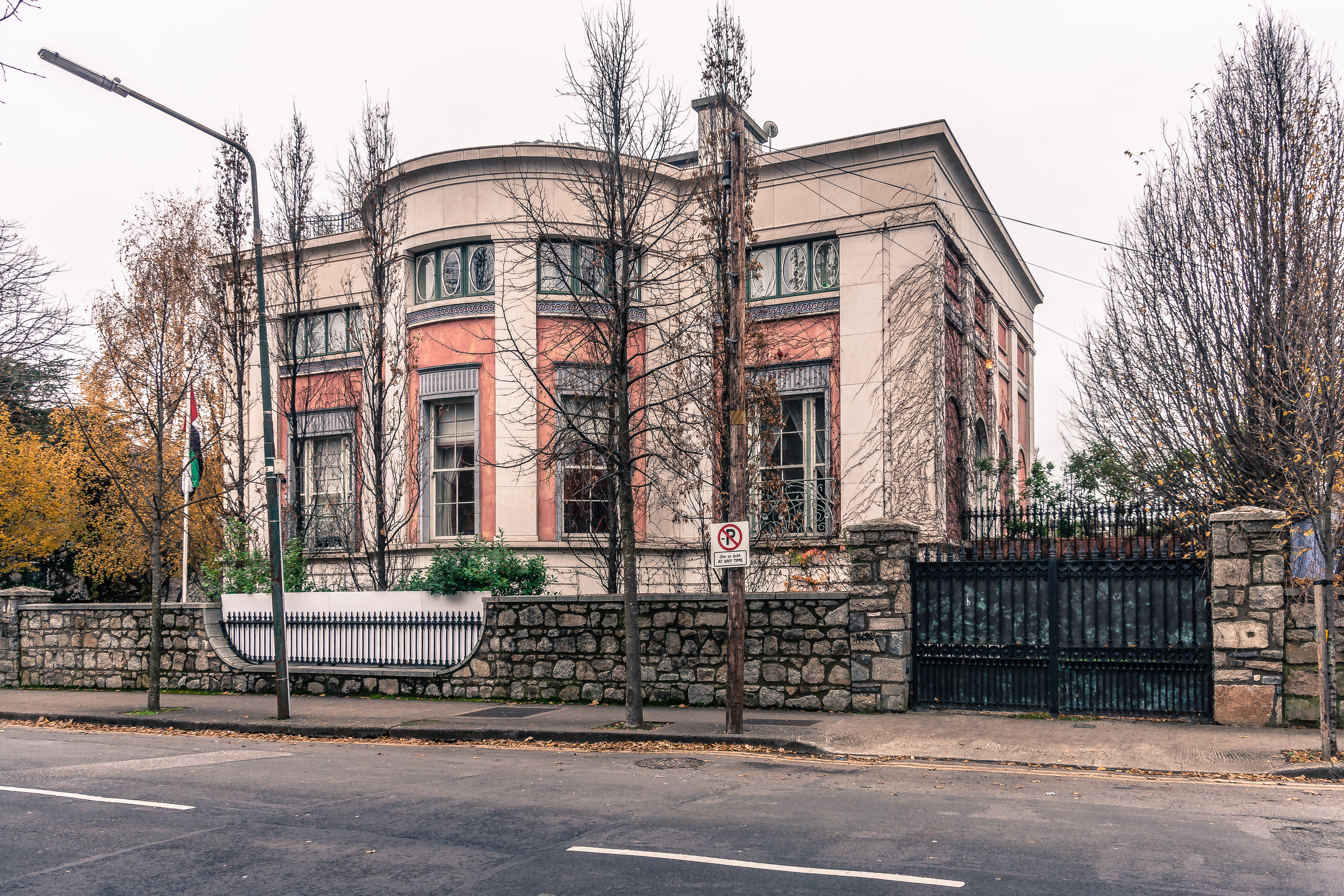 Former home Johnny Ronan. Khalid Nasser Rashed Lootah, now lives here, UAE ambassador to Ireland.